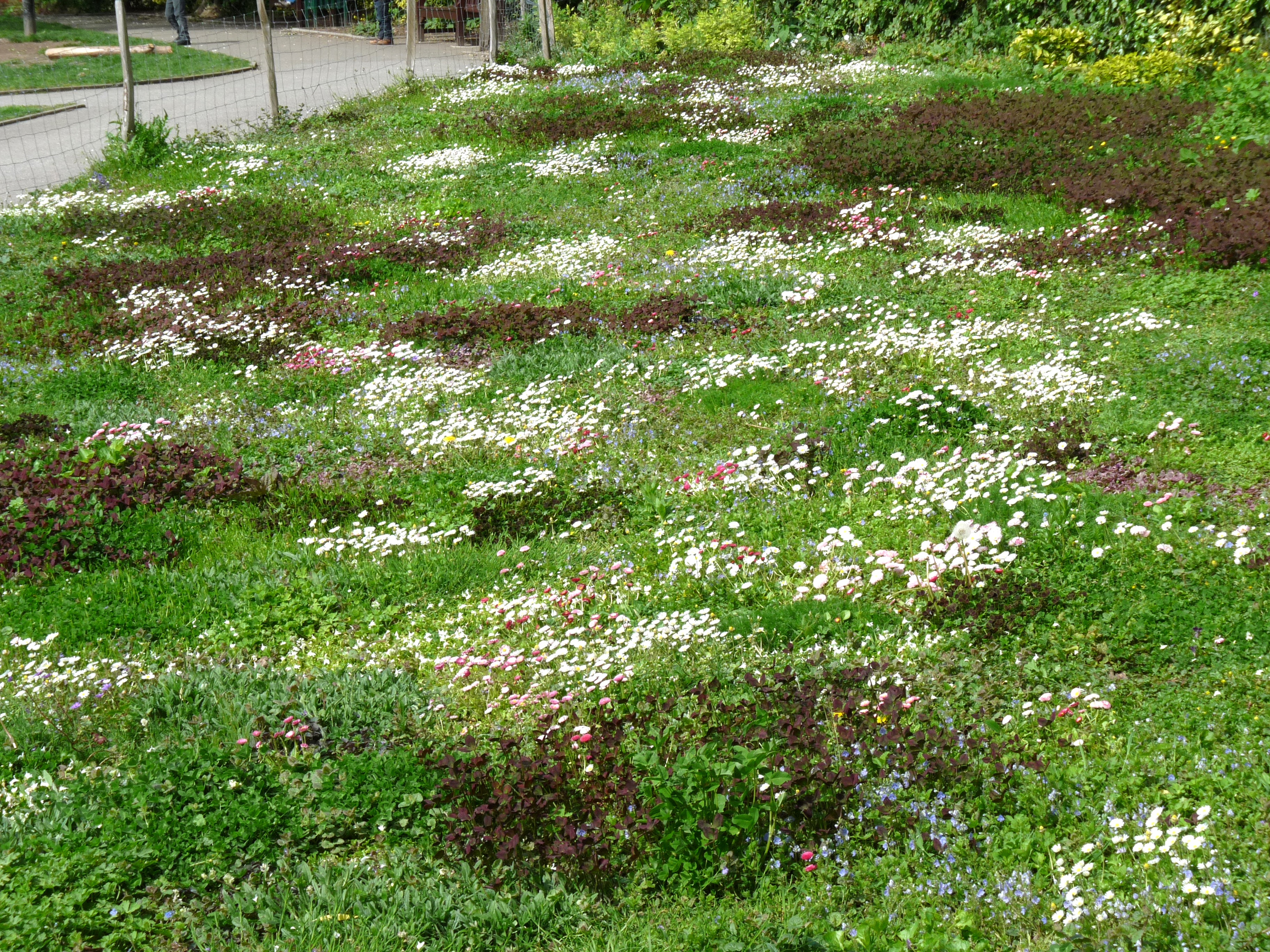 The tapestry lawn in Avondale Park London UK Summer